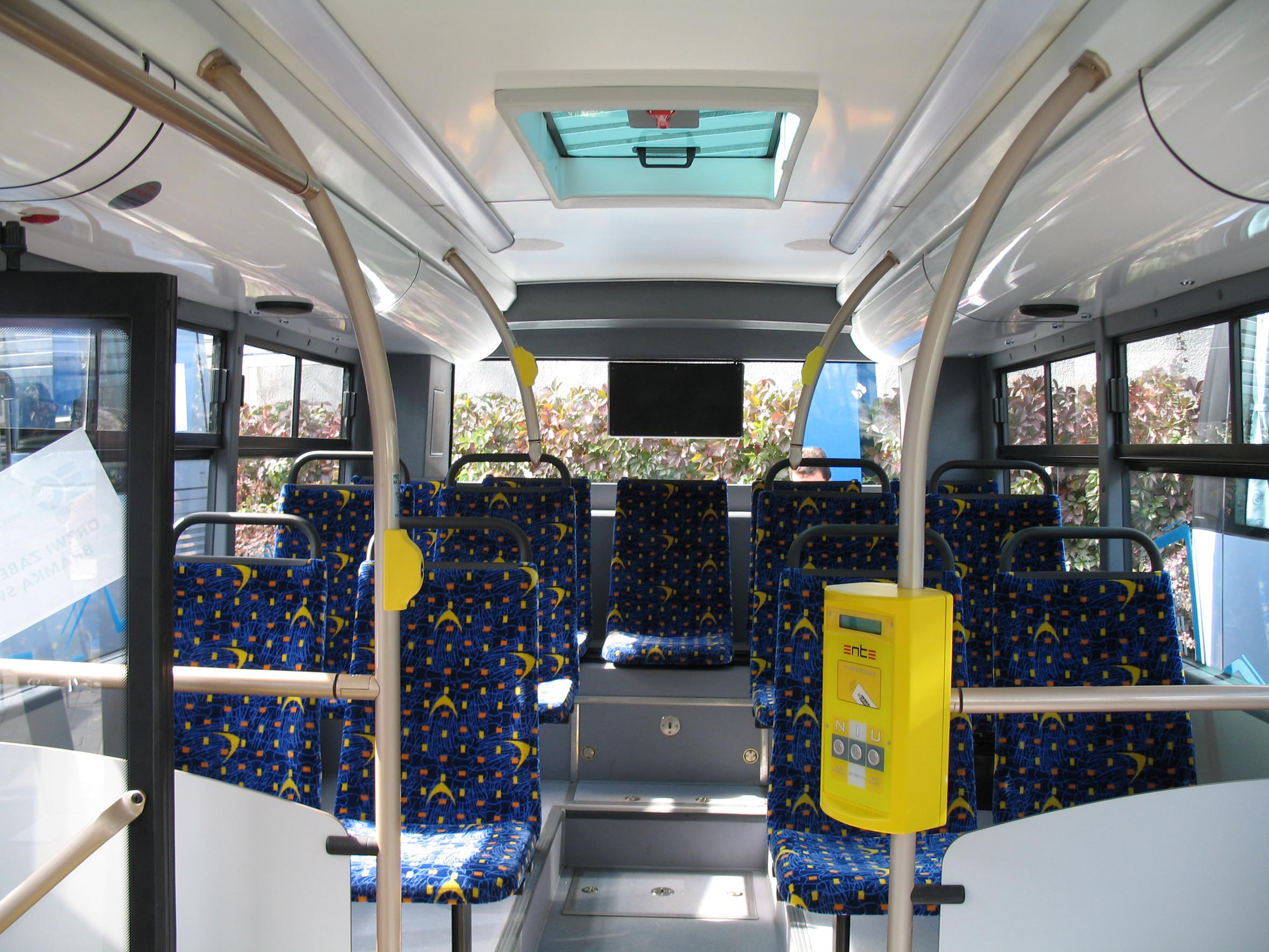 Jelcz M083C Libero bus interior. Built 2007, Transexpo 2007.